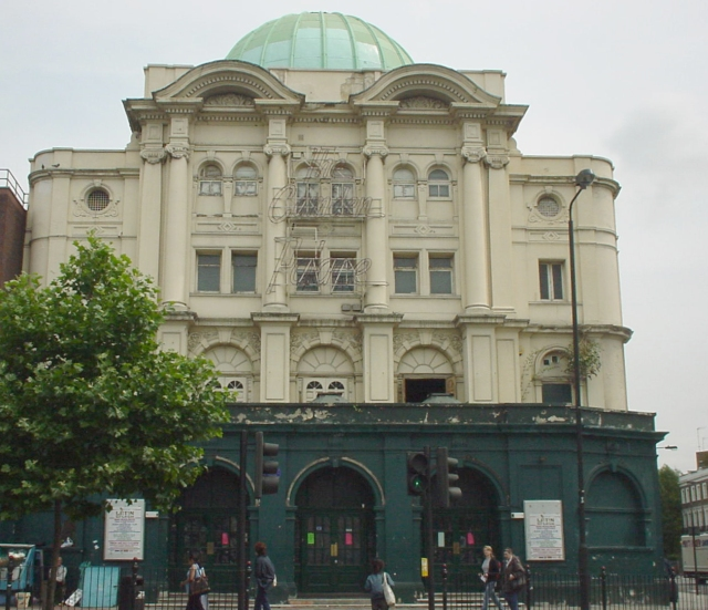 Photo taken by lonpicman